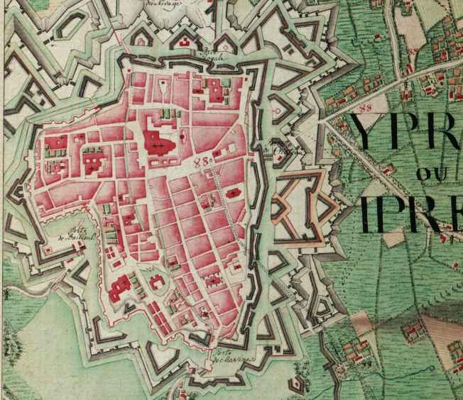 Ieper,_Belgium_;_ detail from Ferraris_Map